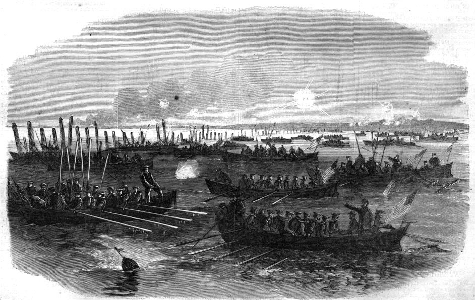 "Admiral Porter's boats removing torpedoes and buoying the channel in Cape Fear River." Lithograph, unknown author.